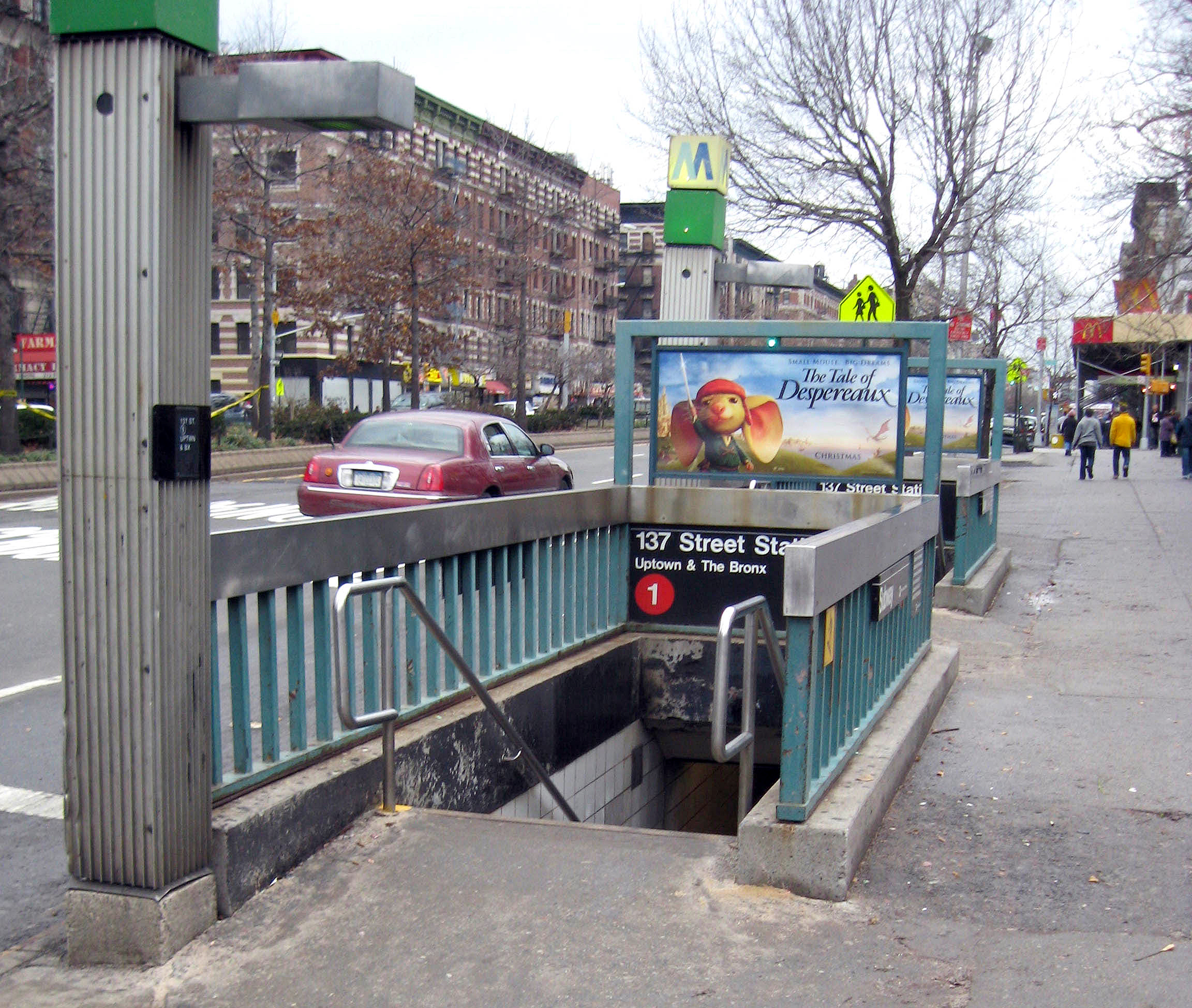 Looking north along Broadway at uptown stair of en:137th Street–City College (IRT Broadway–Seventh Avenue Line) on a cloudy midday.